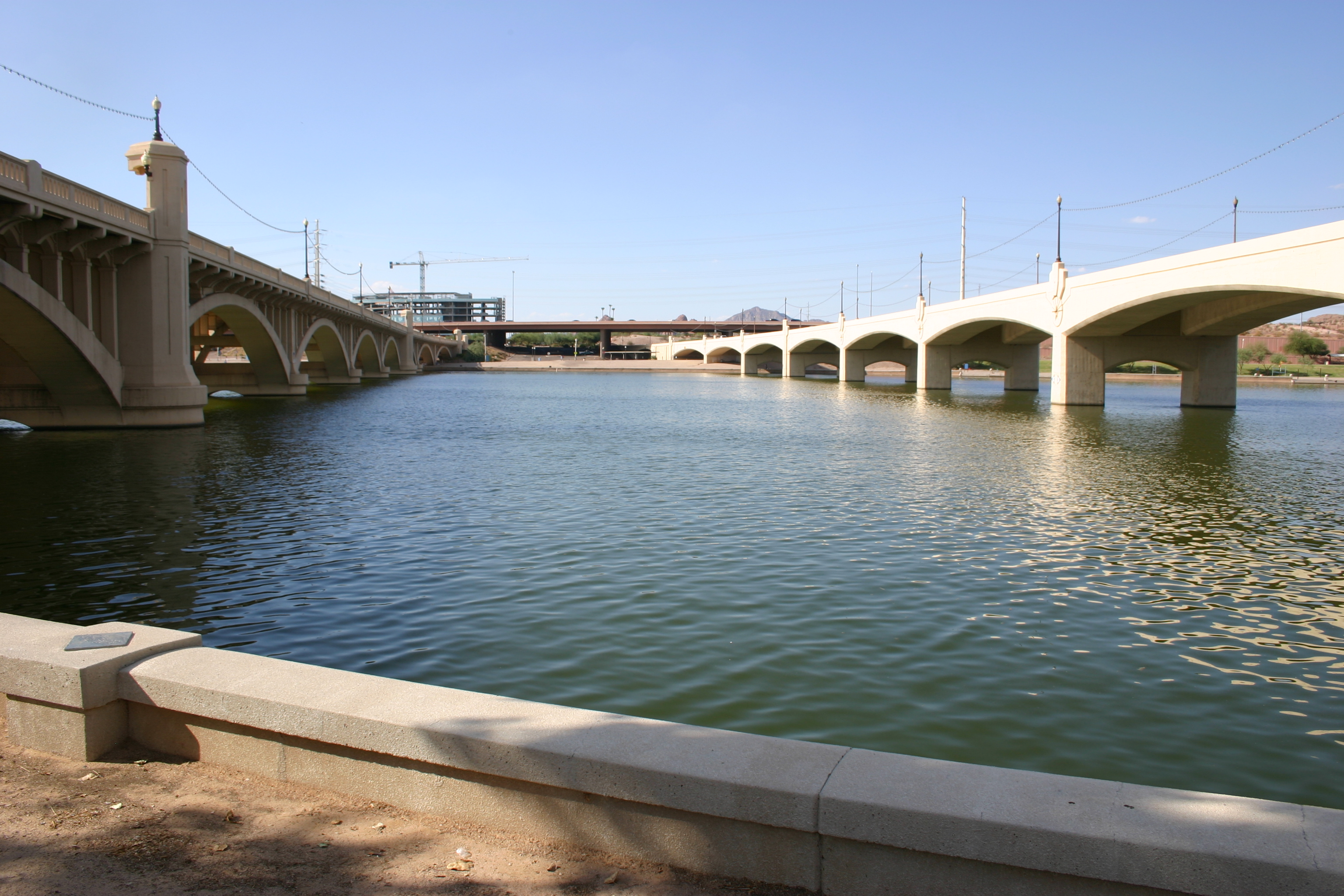 Photo of the Mill Avenue Bridges looking north on the south shore in Tempe Arizona